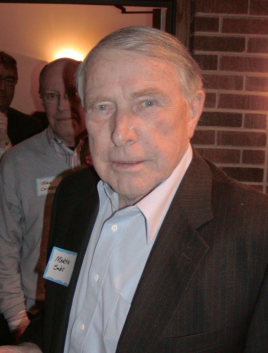 Martin Sabo, U.S. Representative from Minnesota's 5th district from 1979-2007